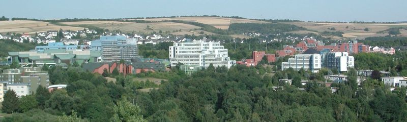 English description